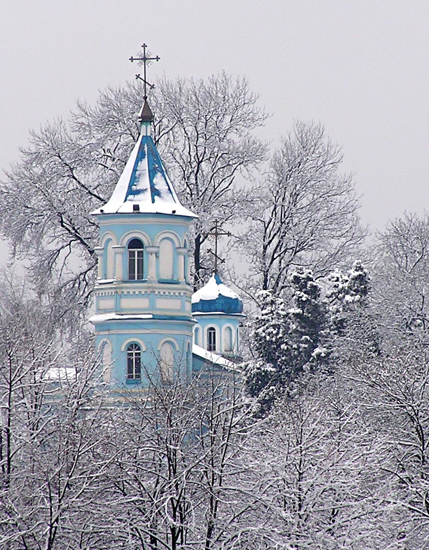 Ossetian Church in Vladikavkaz Summary Object: Vladikavkaz, Russia Description: Ossetian Church in Vladikavkaz Author: Vsya Osetia (Вся Осетия) Created: 2006 Source: Vsya Osetia (Вся Осетия)